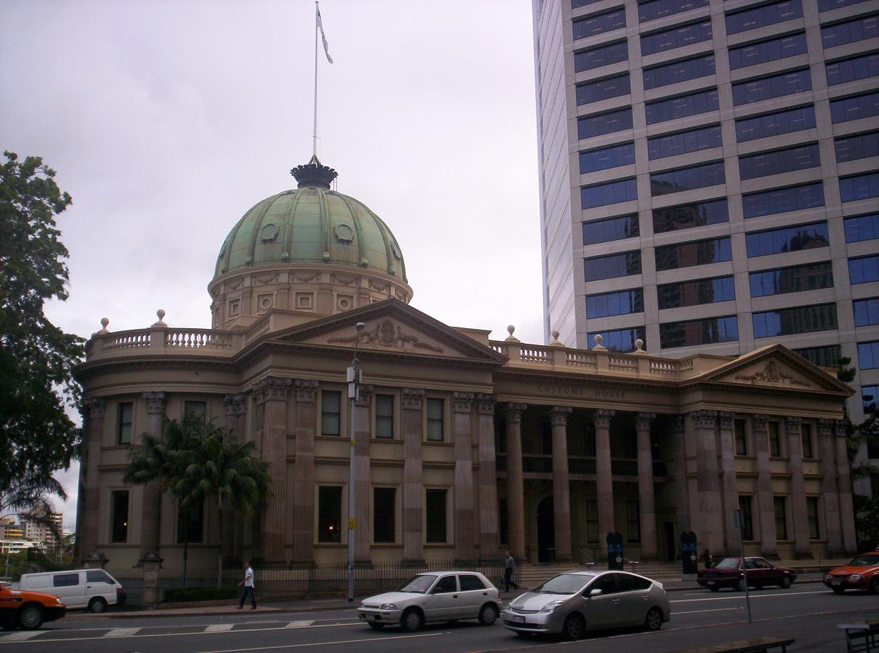 Customs House, Brisbane - taken during the late afternoon ( this photograph was taken by Figaro )